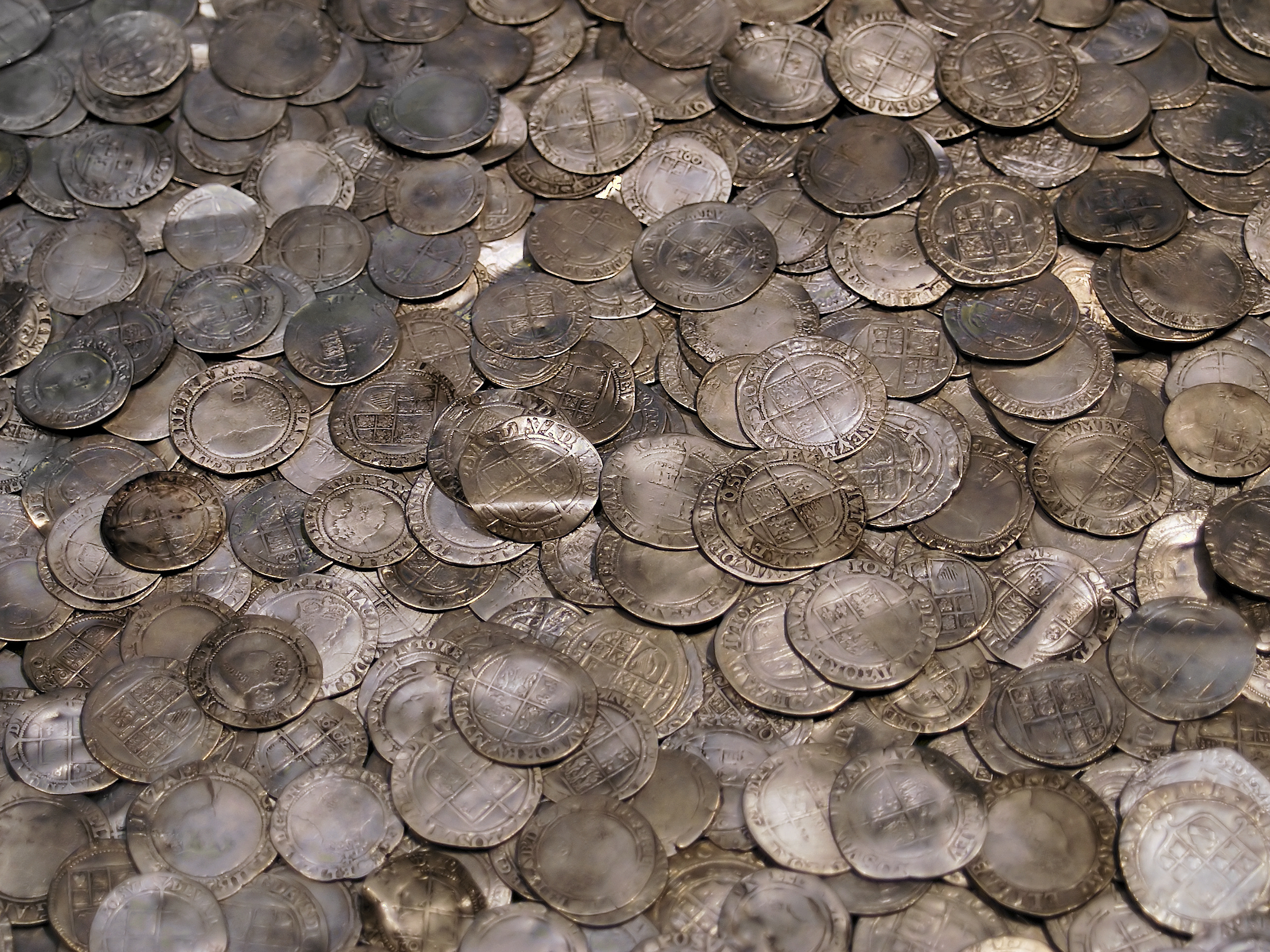 Silver coins hoard from around 1700, England - U.K. at the British Museum. Half crowns of Charles I, shillings of James I and sixpences of Elisabeth I.